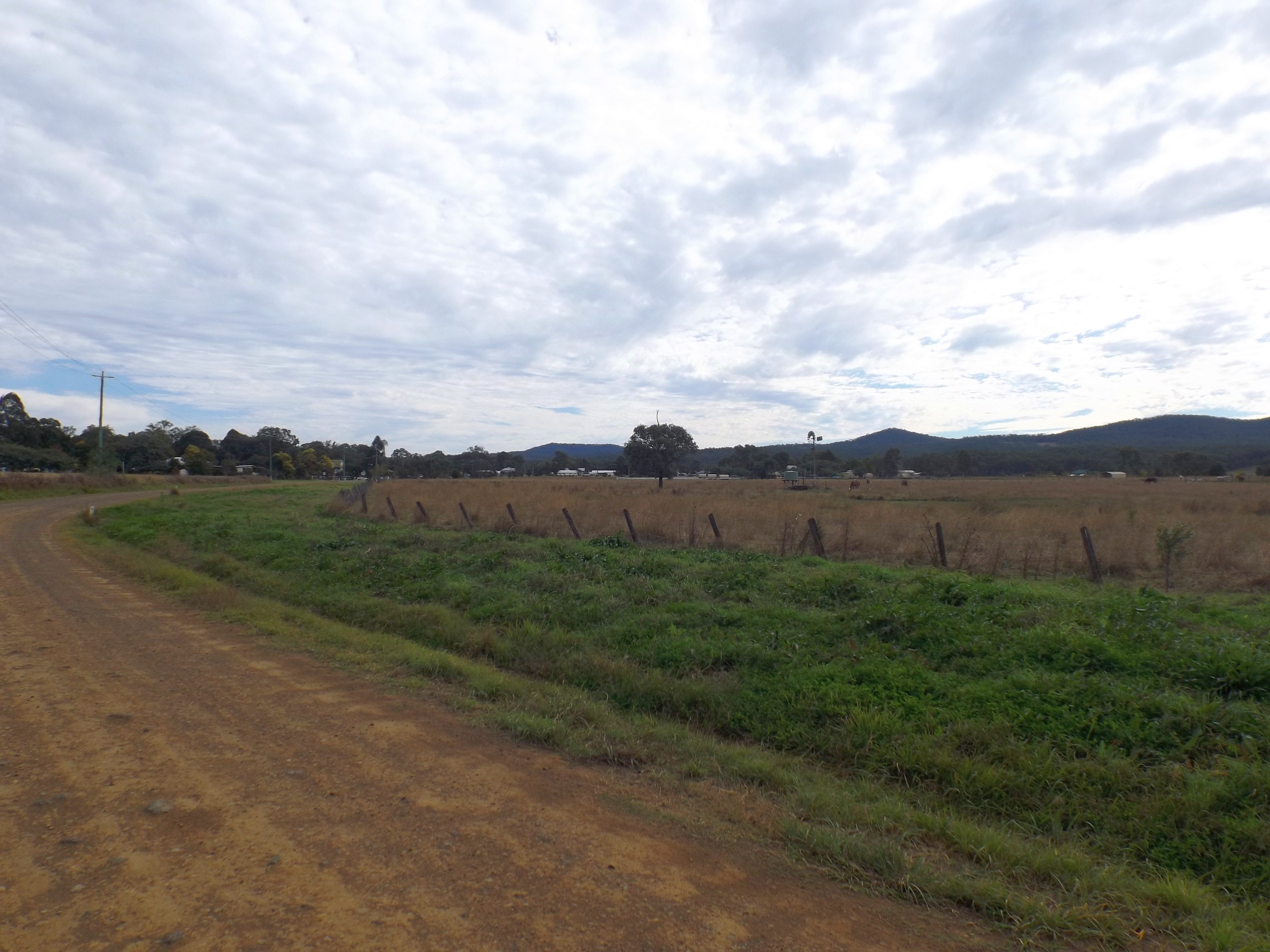 Photo of Paddocks at Calvert, Ipswich, Queensland, Australia.